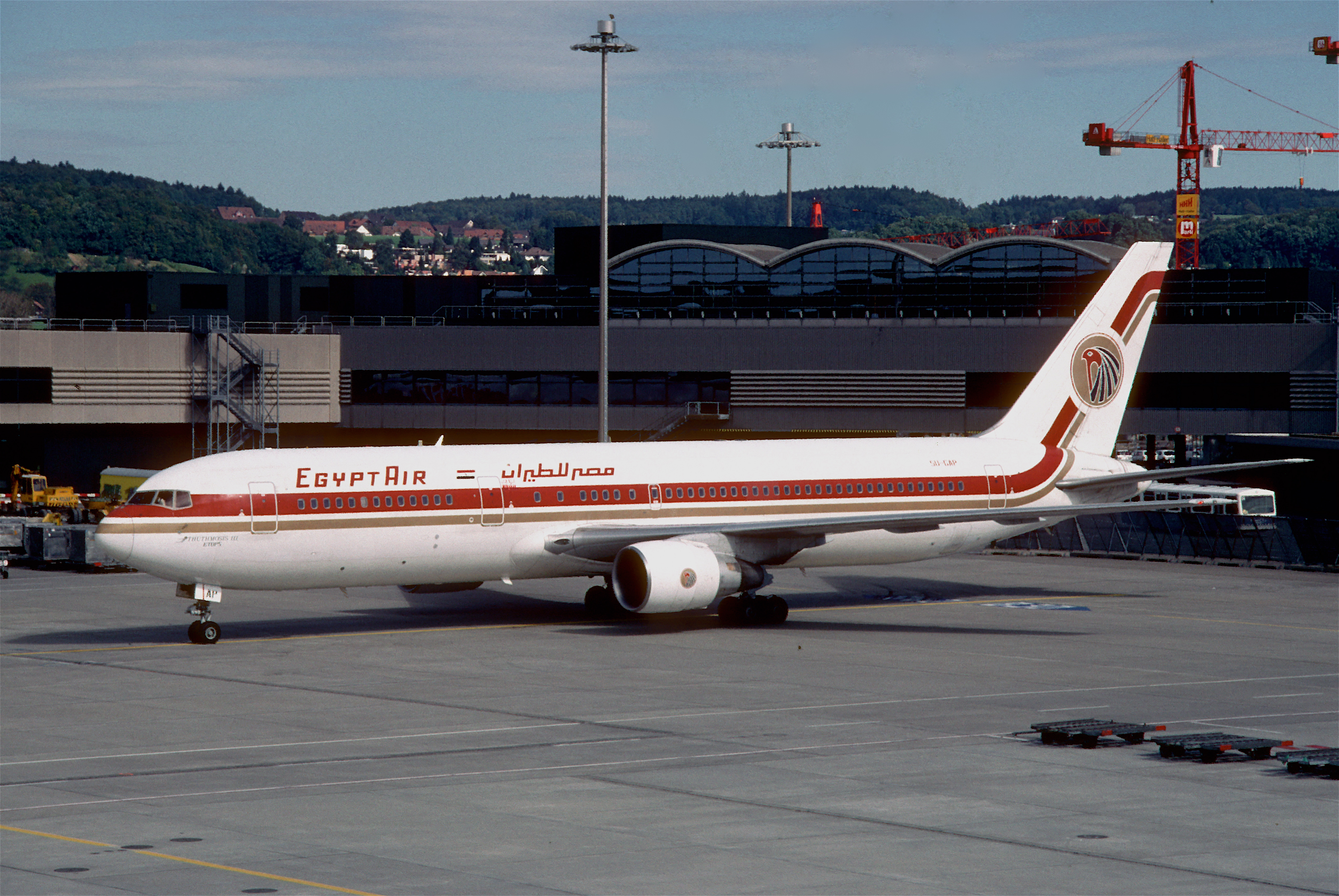 This 767 crashed only a couple of week later after taking off from New York JFK (as Egypt Air 990) off Nantucket into the Altlantic Ocean (on October 31, 1999)...